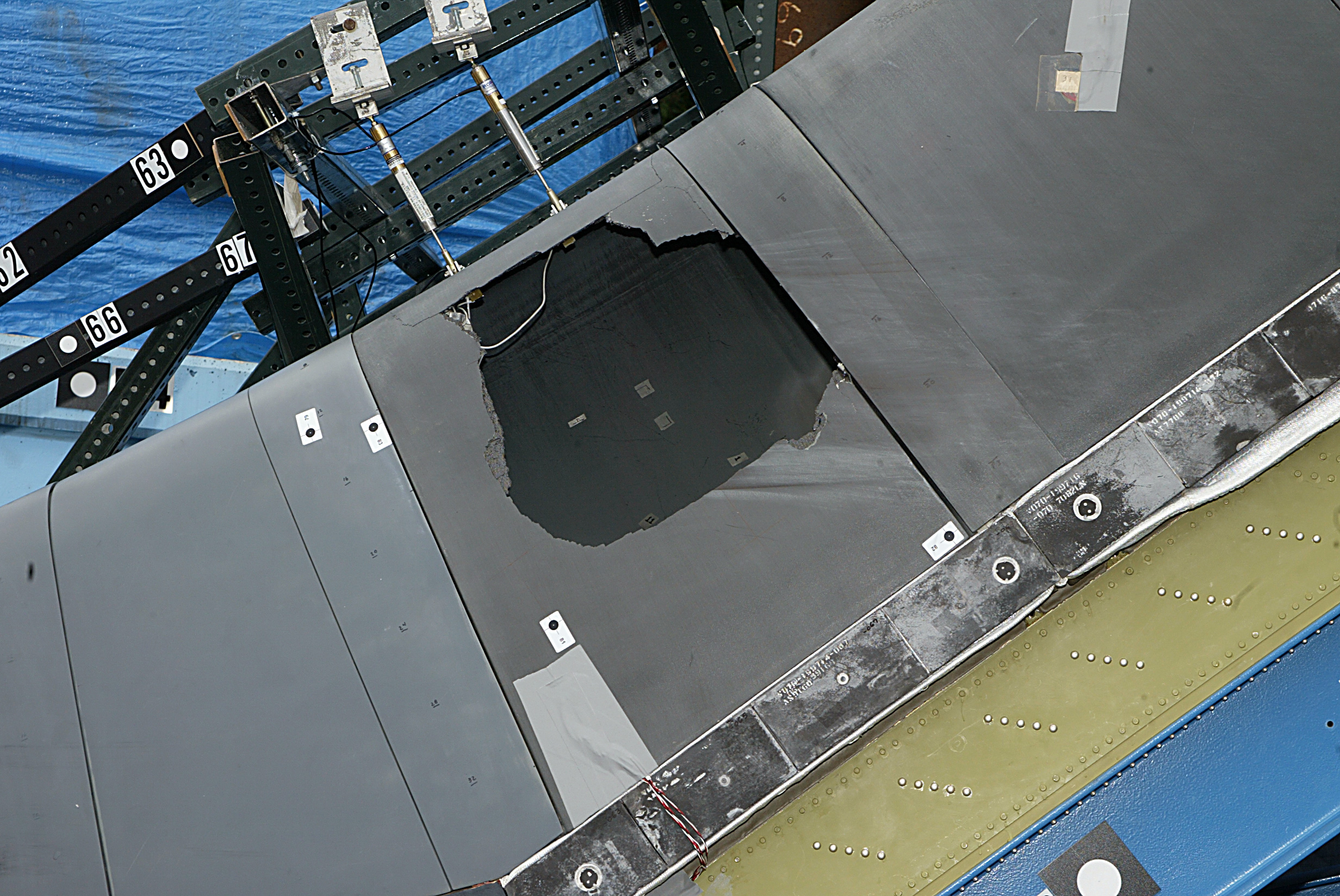 Hole in RCC leading-edge panel from Atlantis, a result of impact testing in the investigation of the Space Shuttle Columbia disaster. Soft polyurethane foam impacted this mock-up of a space shuttle wing at approximately 850 km/h.